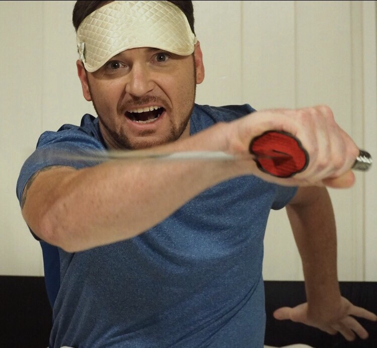 An on set still of Jenkins in the role of Gustaf in "The Void ReBooted"